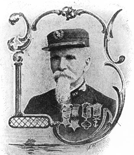 John Freeman Mackie, former Corporal, United States Marine Corps. Halftone image published in Deeds of Valor, Volume II, page 25, by the Perrien-Keydel Company, Detroit, 1907. Corporal Mackie was awarded the Medal of Honor for heroism in action on board USS Galena during her engagement with Confederate batteries at Drewry's Bluff, James River, Virginia, on 15 May 1862. This view shows him in what appears to be a Grand Army of the Republic uniform, circa 1900.